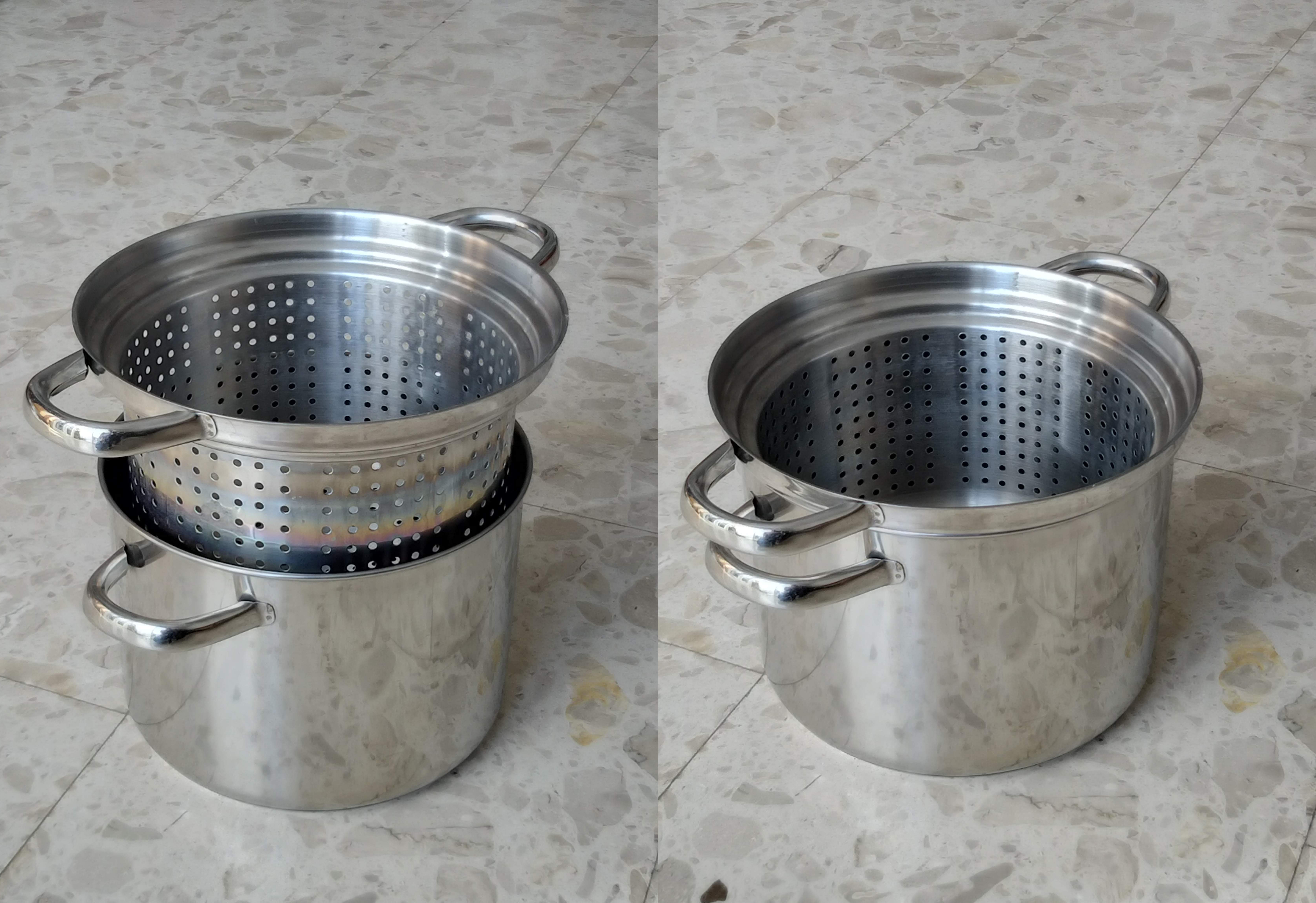 Mated colander pot showing the colander insert in the bottom pot and slightly lifted